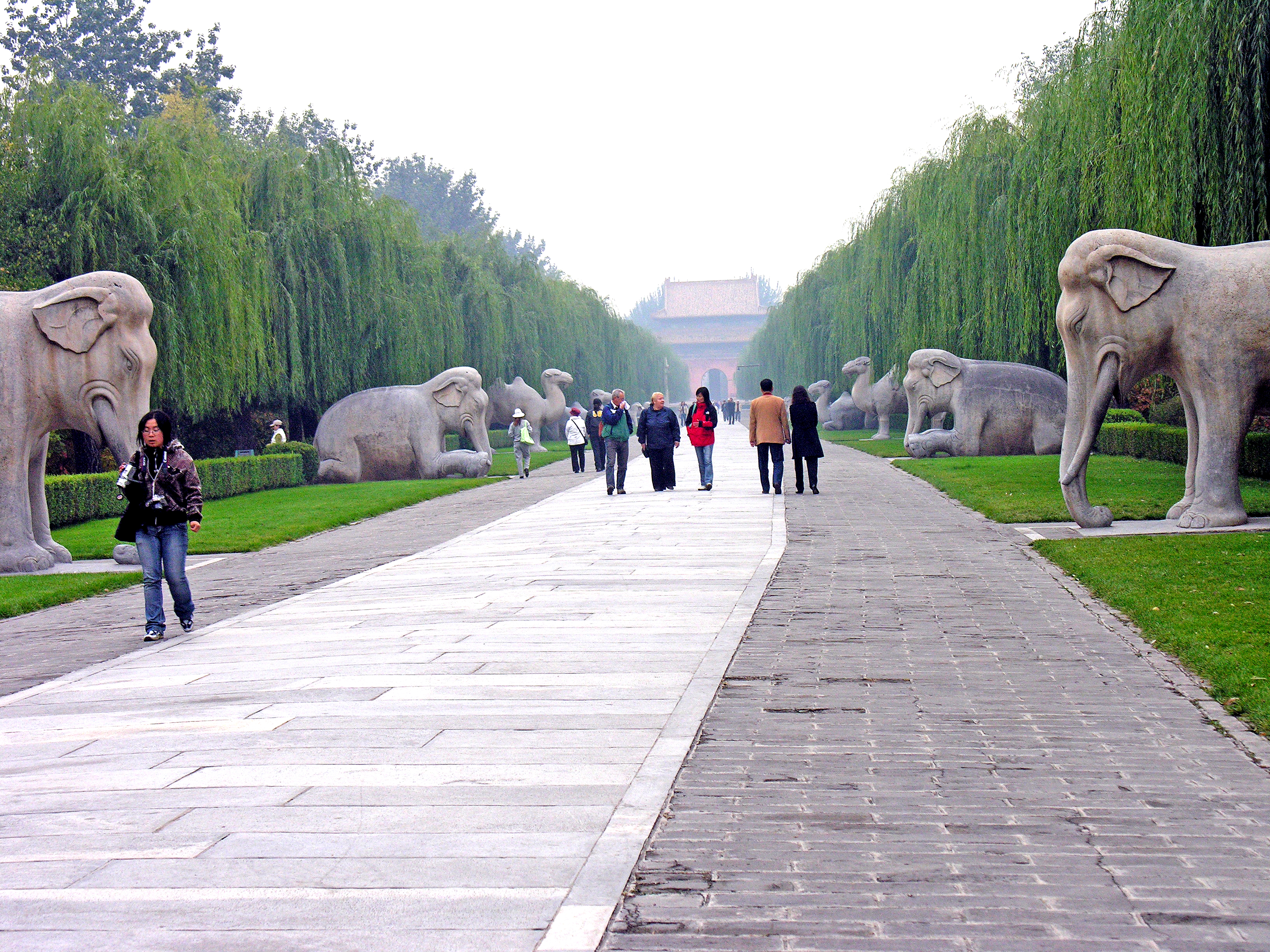 Looking back at the Sacred Way.